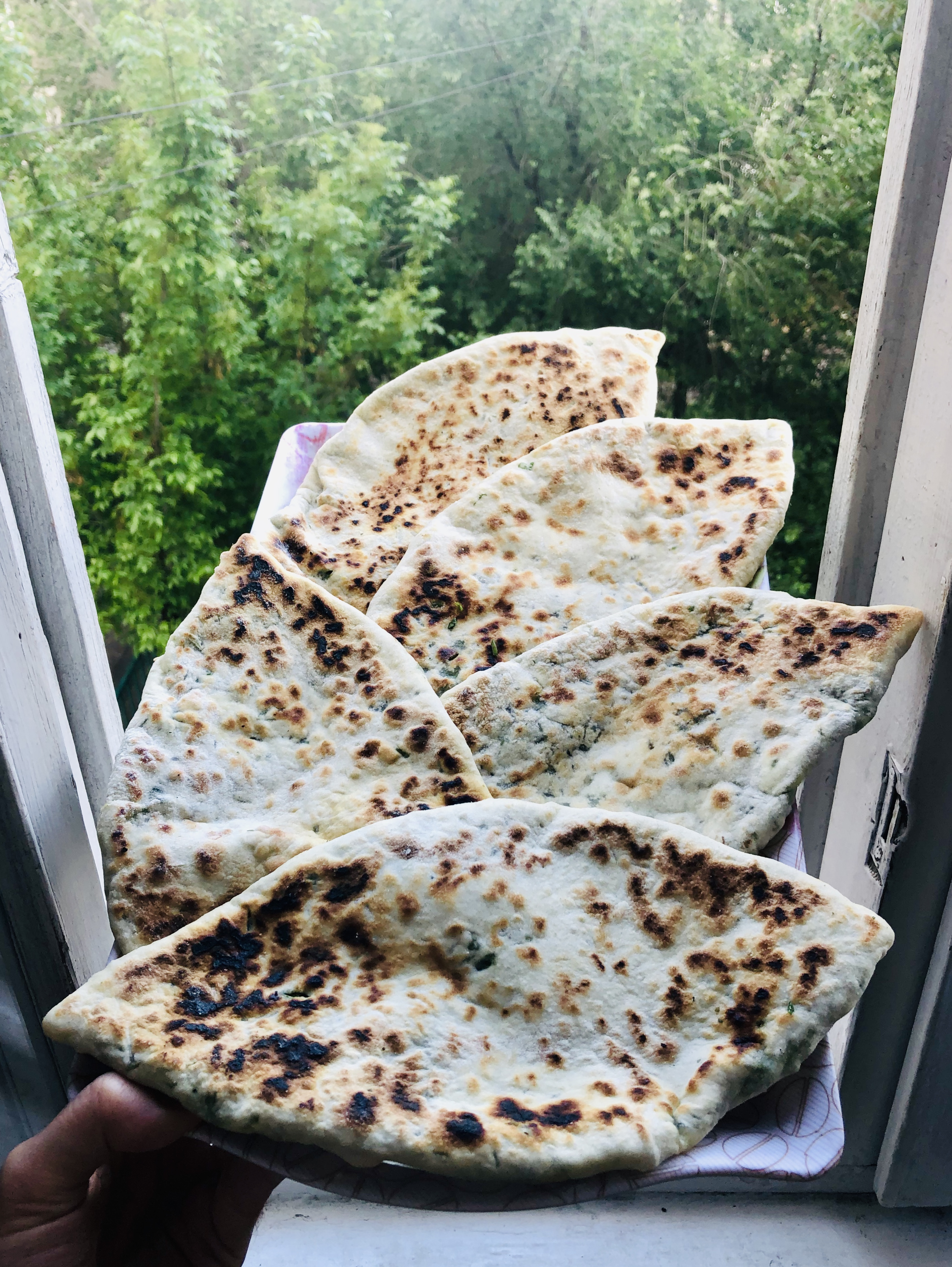 Jengyal roll